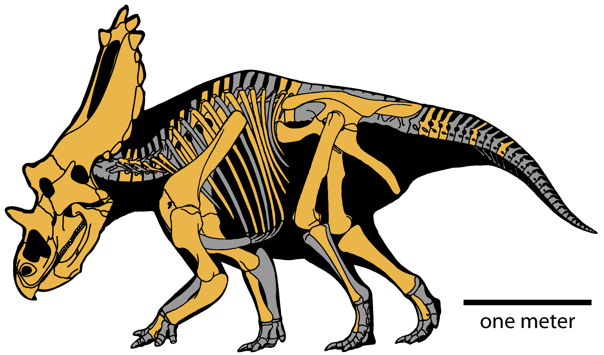 Skeletal elements recovered for Utahceratops gettyi